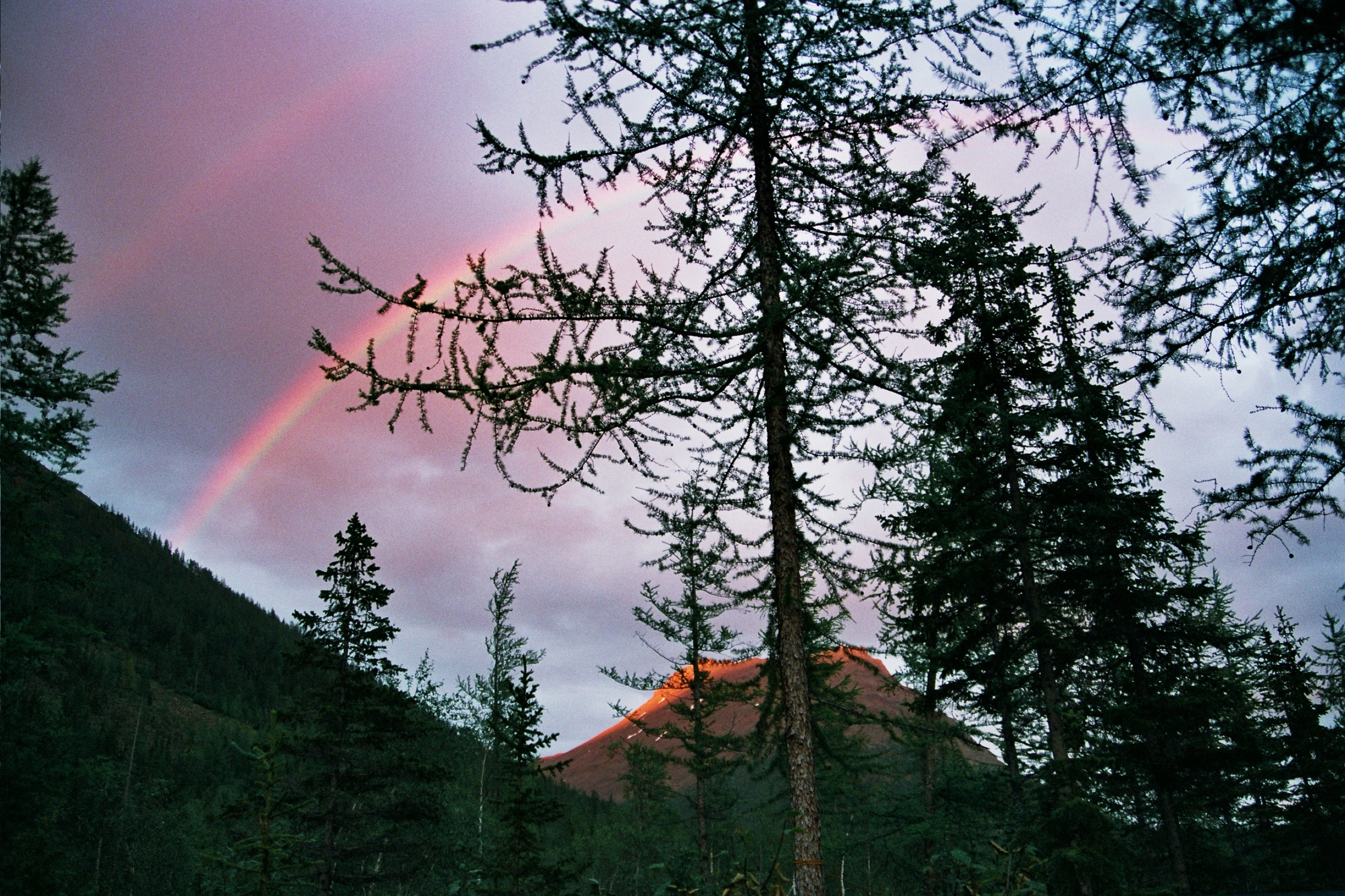 Putorana. Lama lake.